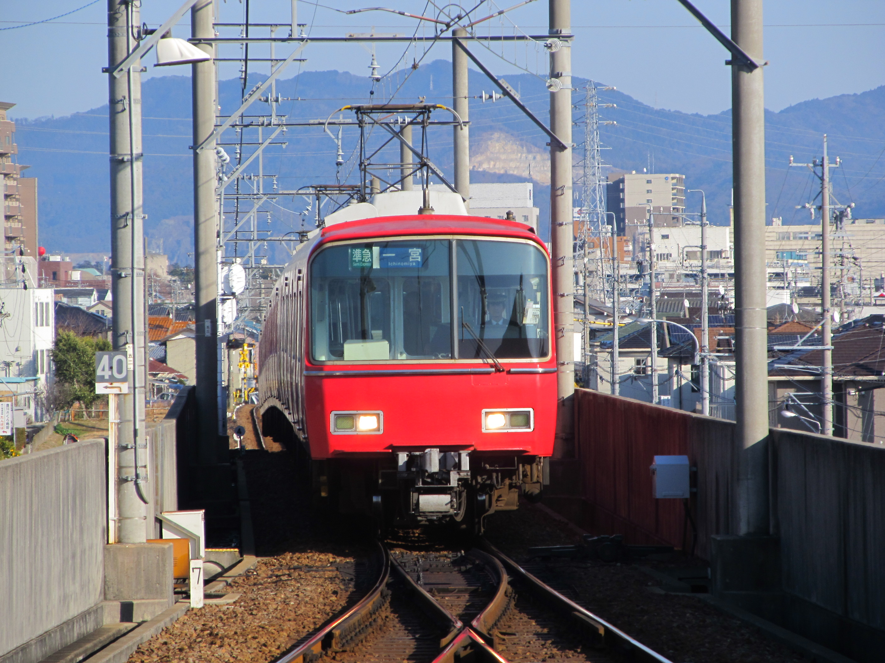 Meitetsu 6500 series and 6800 series. Semi Express bound for Meitetsu Ichinomiya. In Yawata Station.